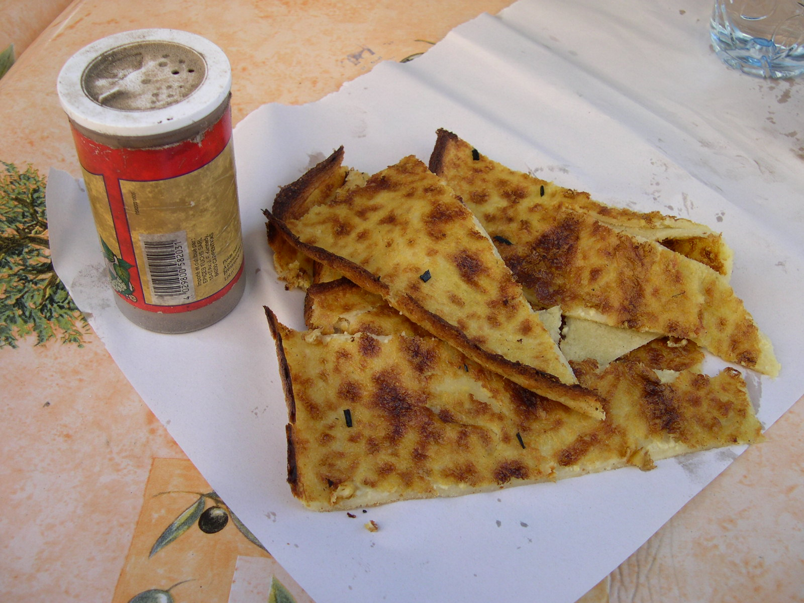 Slices of socca sold by a market vendor in Vieux Nice. Taken Feb 2008.